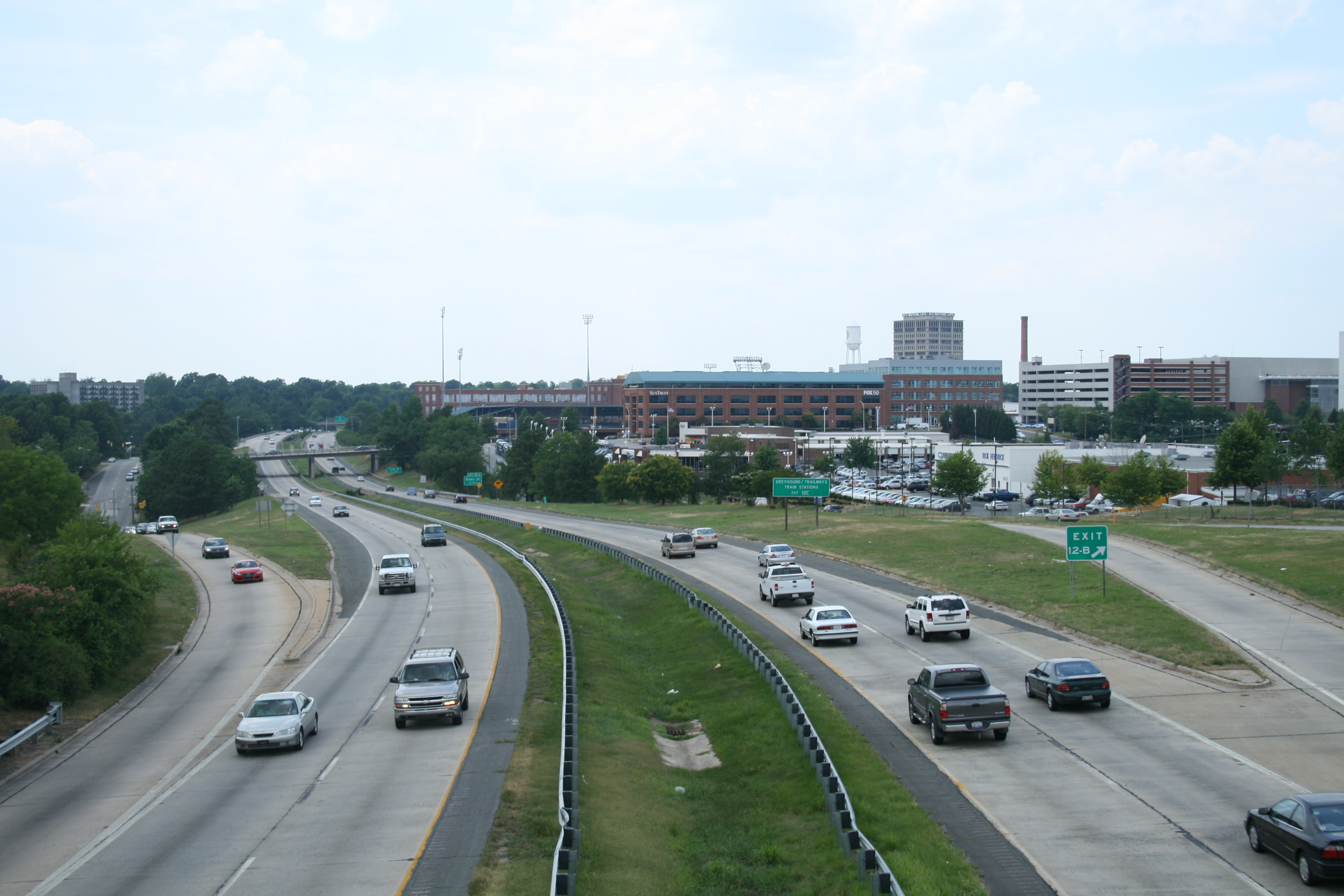 North Carolina Highway 147 passing through downtown Durham, viewed from the Fayetteville St overpass.